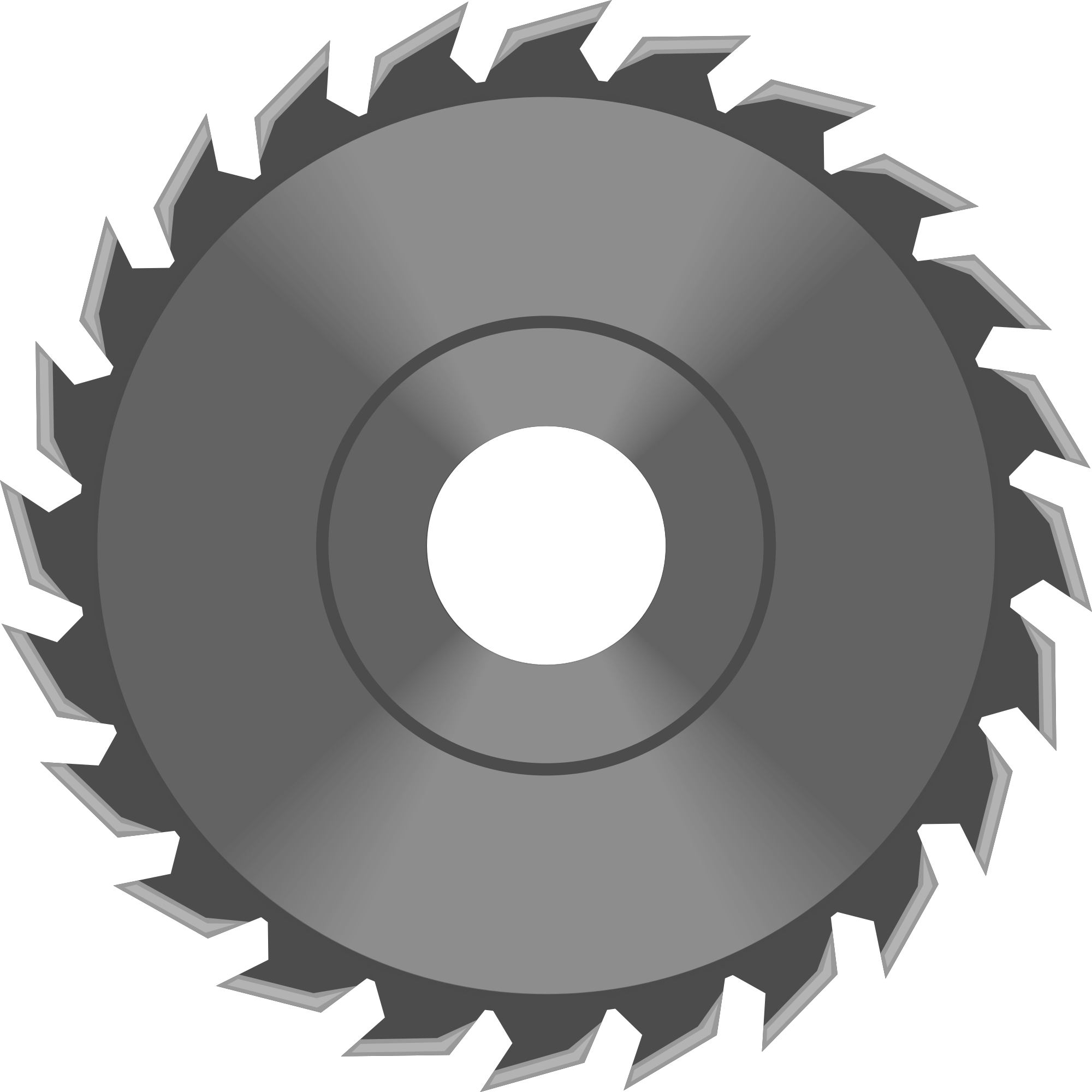 Circular Saw Blade